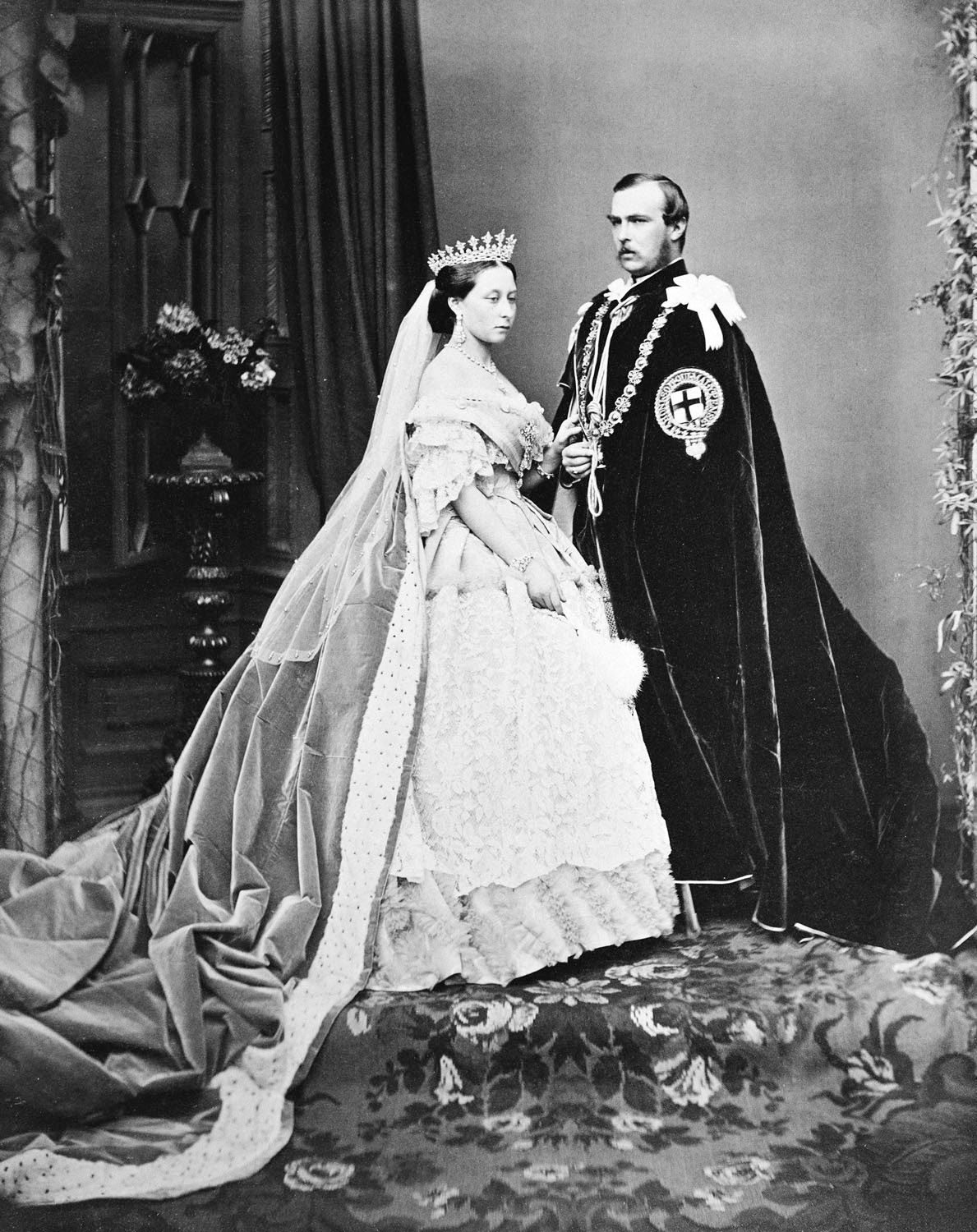 The Prince and Princess Louis of Hesse